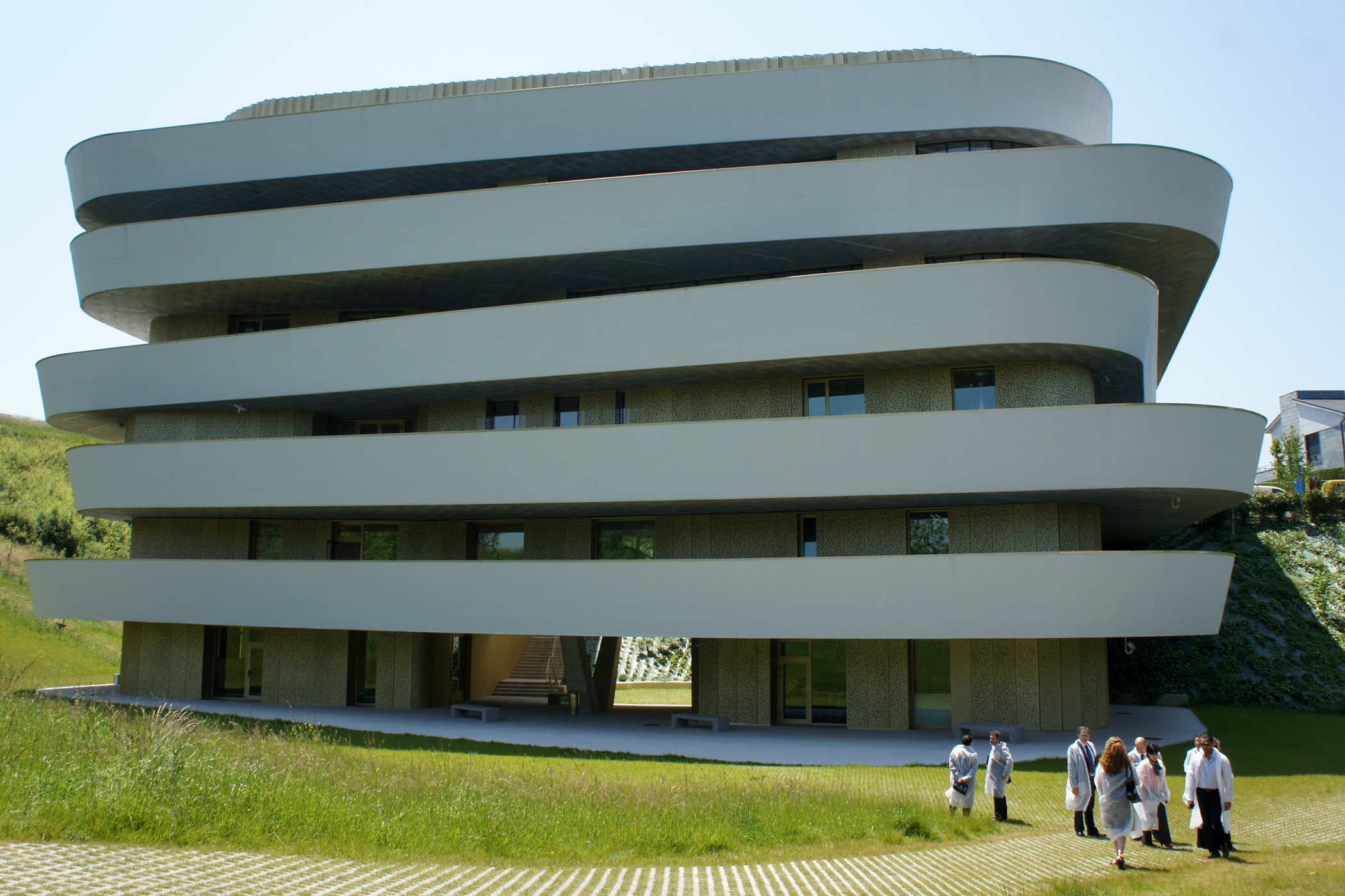 Basque Culinary Center, San Sebastian, Basque Country, Spain.